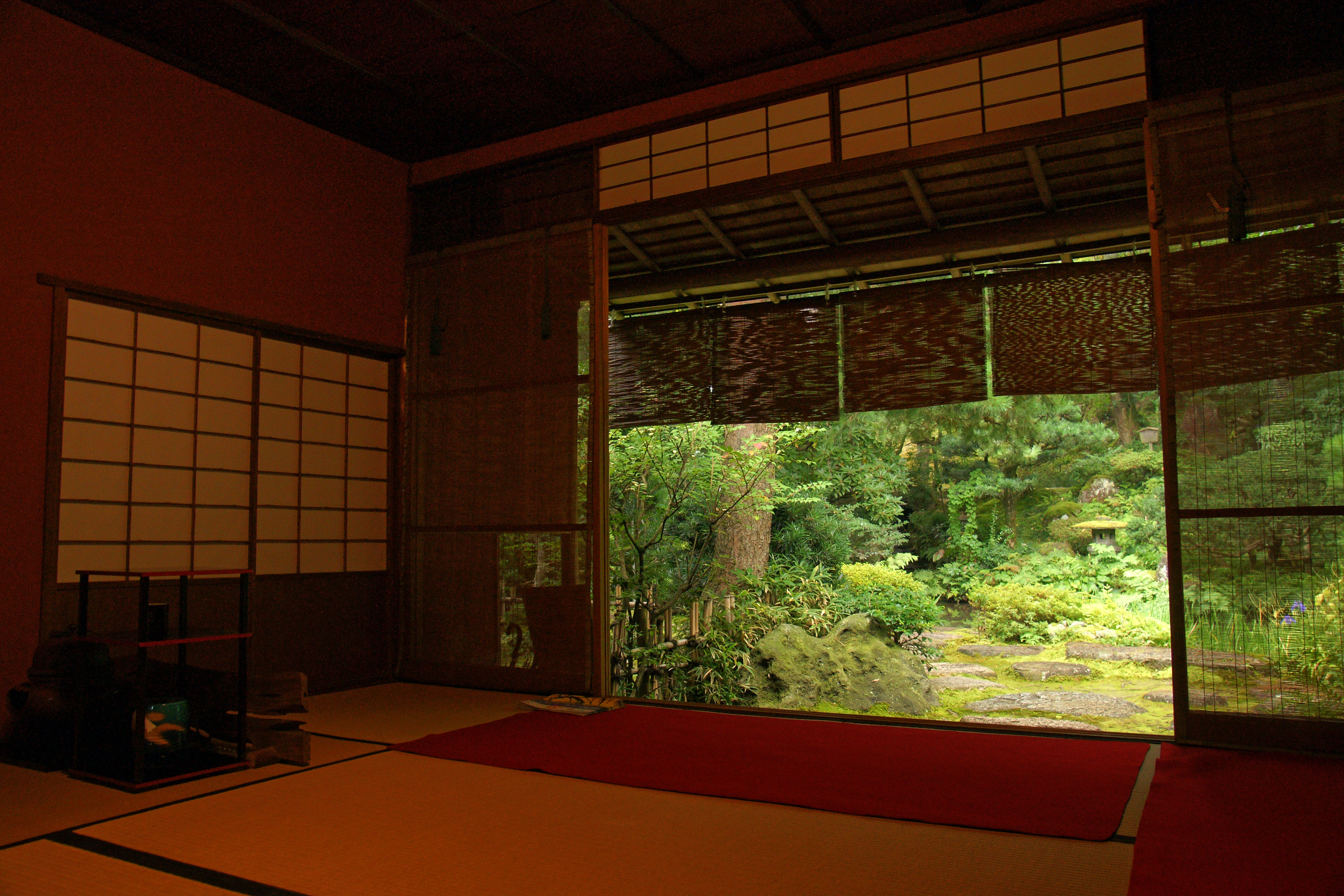 Gyokusenen in Kanazawa, Ishikawa prefecture, Japan